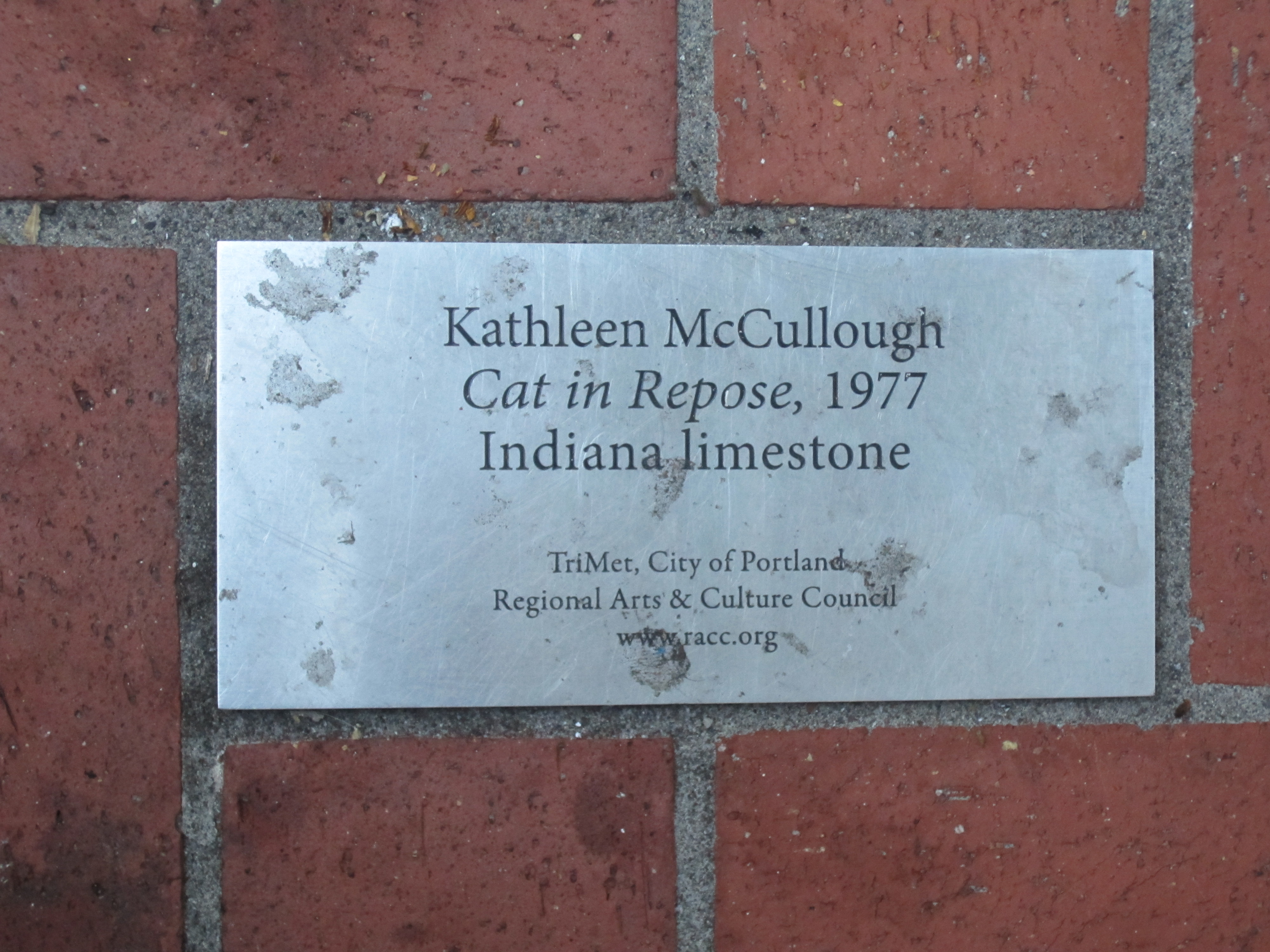 Plaque for Cat in Repose by by Katheen McCullough in Portland, Oregon (2012)